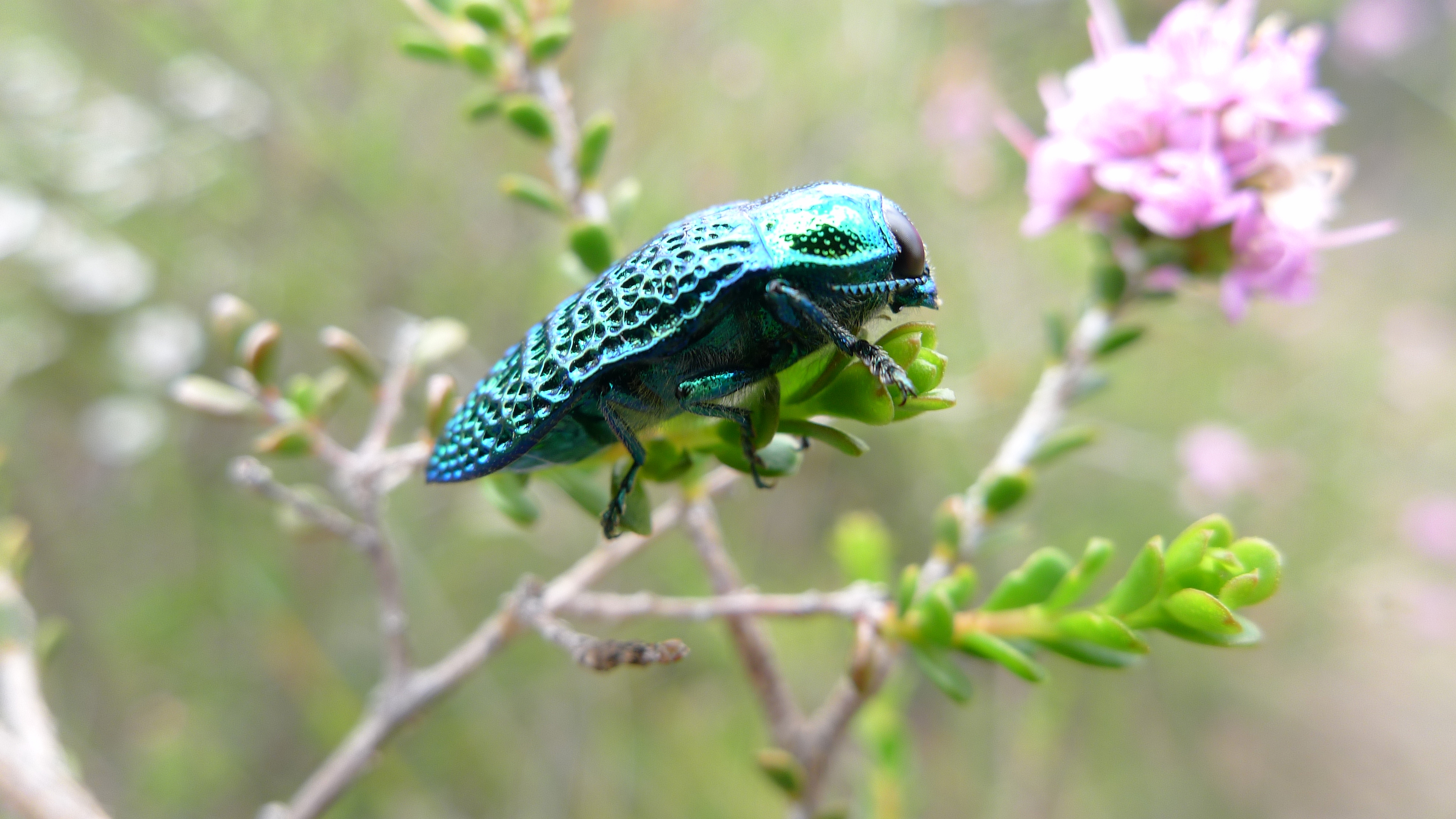 Jewel Beetle, probably Stigmodera gratiosa, a species of Buprestidae. Jarrahdale State Forest, Western Australia, November 2011.